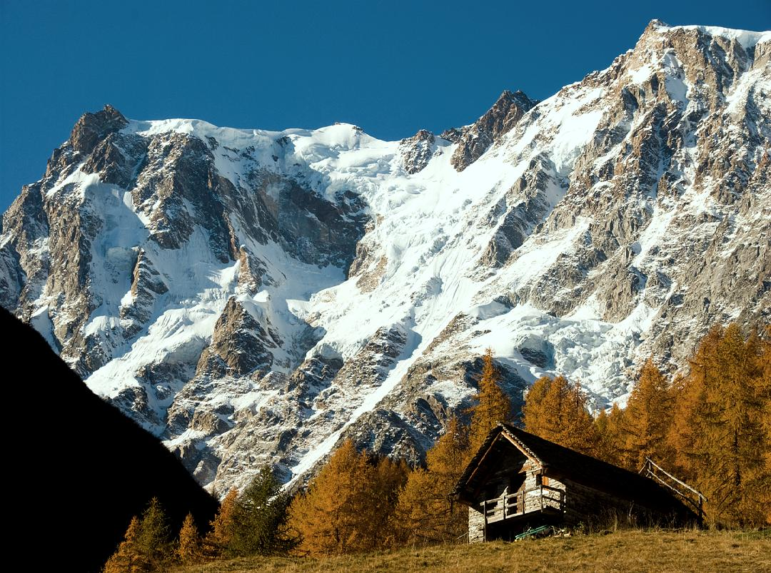 The 2.5 km high eastern wall of the Dufourspitze (4634 metres, 15 200 feet). The true summit lies in the middle right, between the Signalkuppe (4554 metres) on the left and the Nordend (4609 metres) on the right.